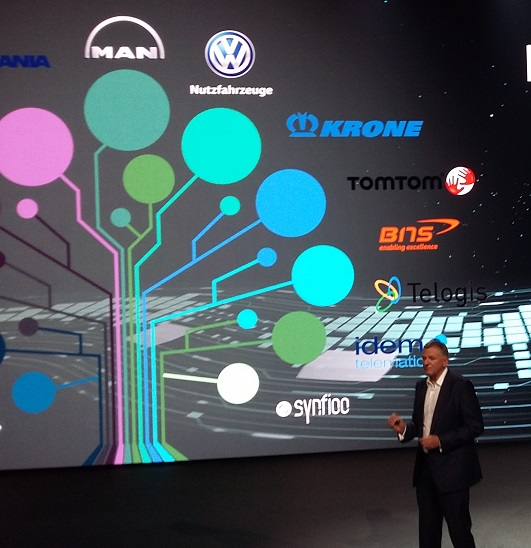 Andreas Renschler stellt die Partnerfirmen der offenen Plattform RIO vor.